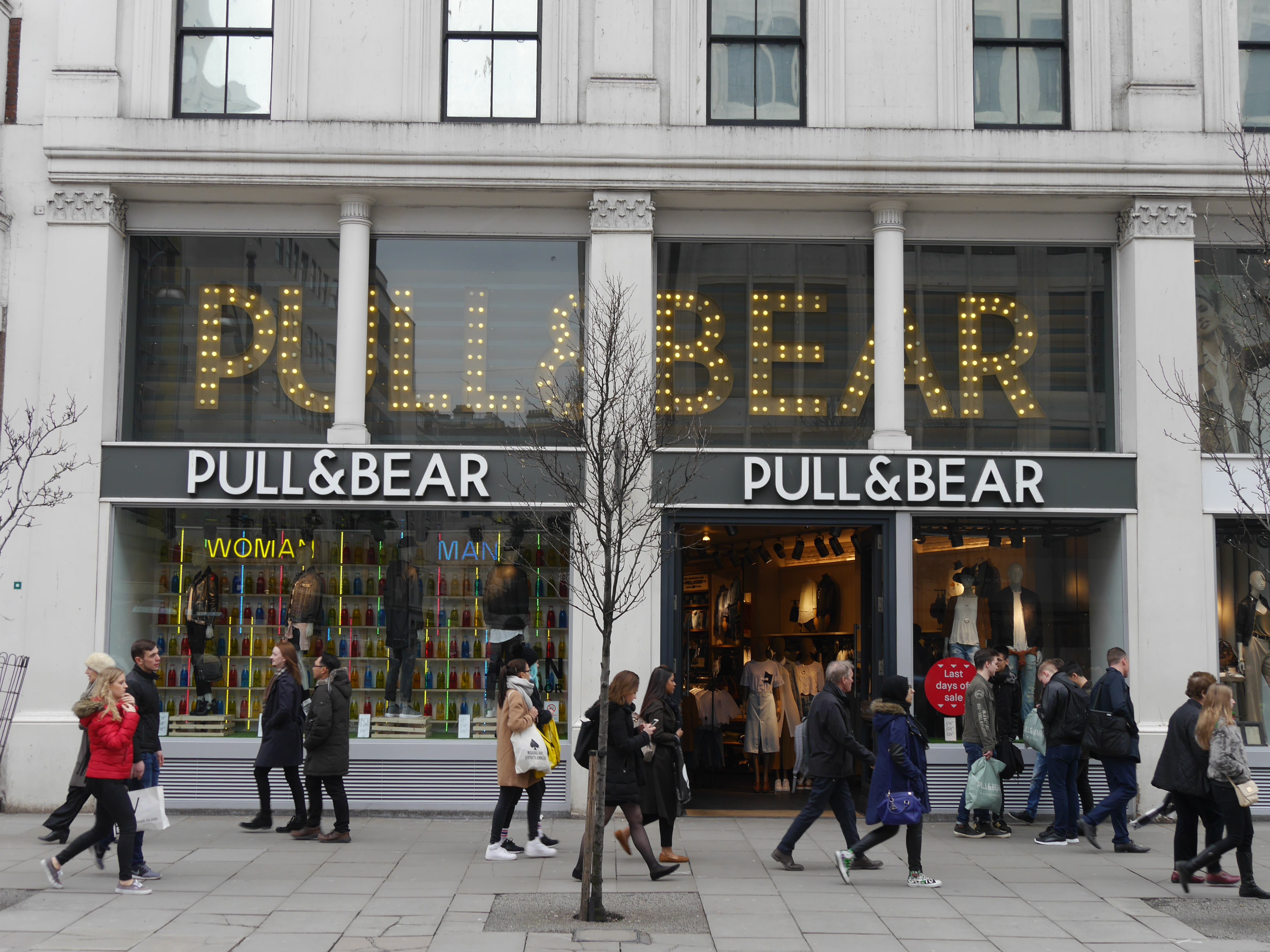 Oxford Street, London, March 2016